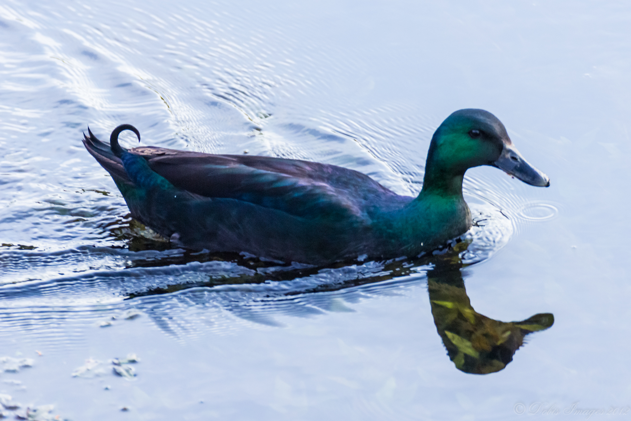 A Cayuga drake in Brighton, Michigan.